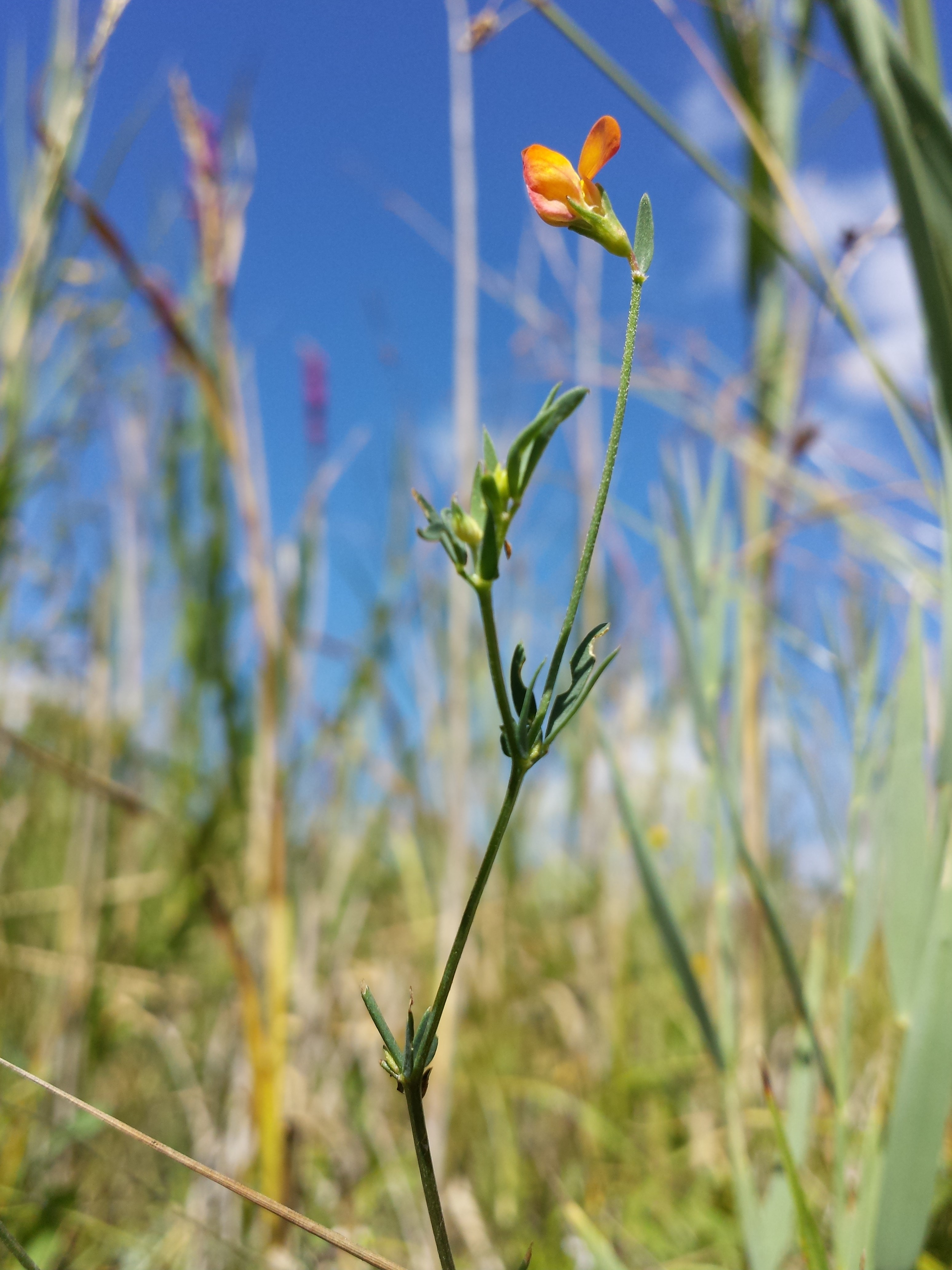 Habitus Taxonym: Lotus tenuis ss Fischer et al. EfÖLS 2008 ISBN 978-3-85474-187-9 Location: nature reserve Zwingendorfer Glaubersalzböden - Hintausacker, district Mistelbach, Lower Austria - ca. 185 m a.s.l. Habitat: salt meadow